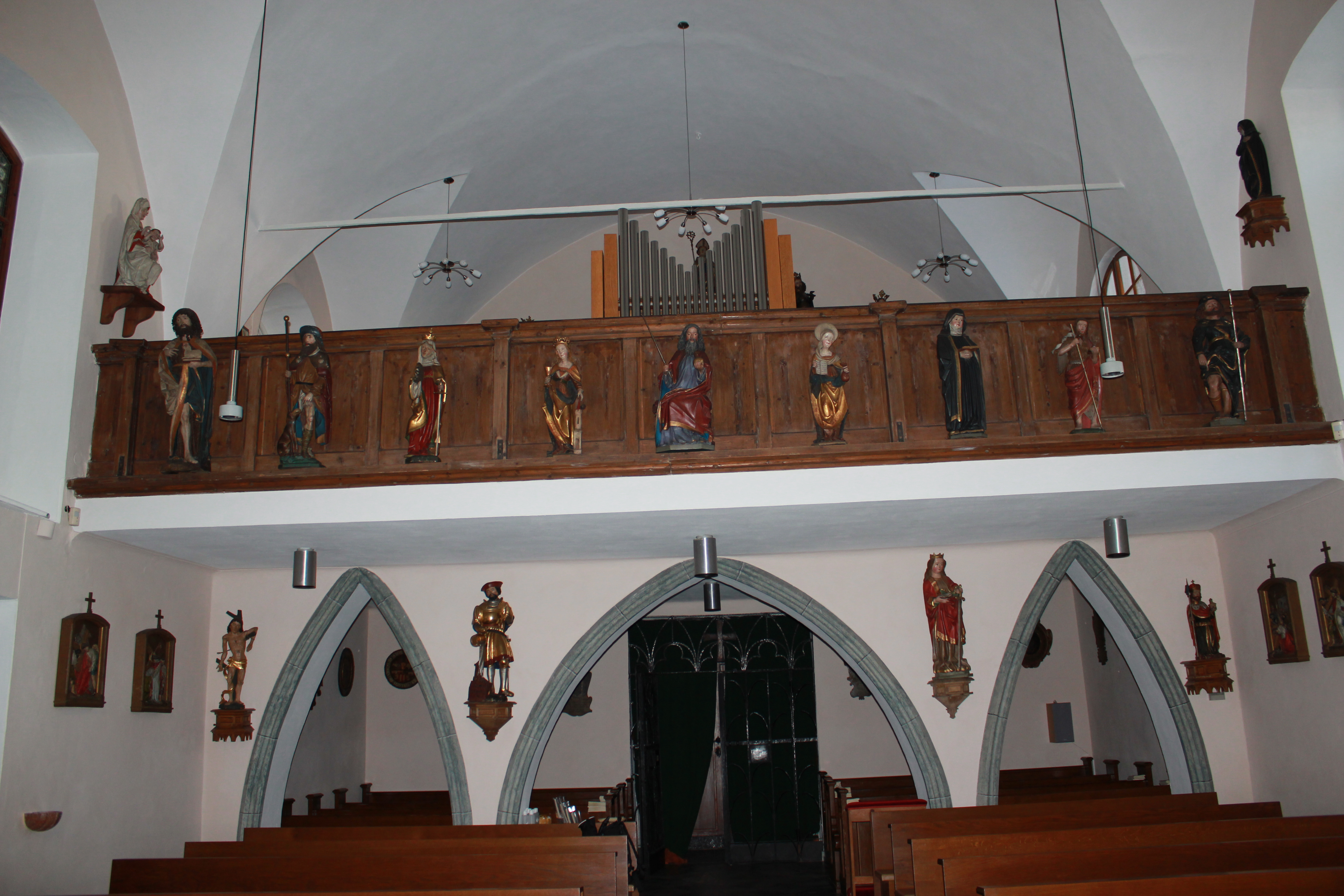 Church of Teutonic Knights in the city Friesach: View to the organ loft